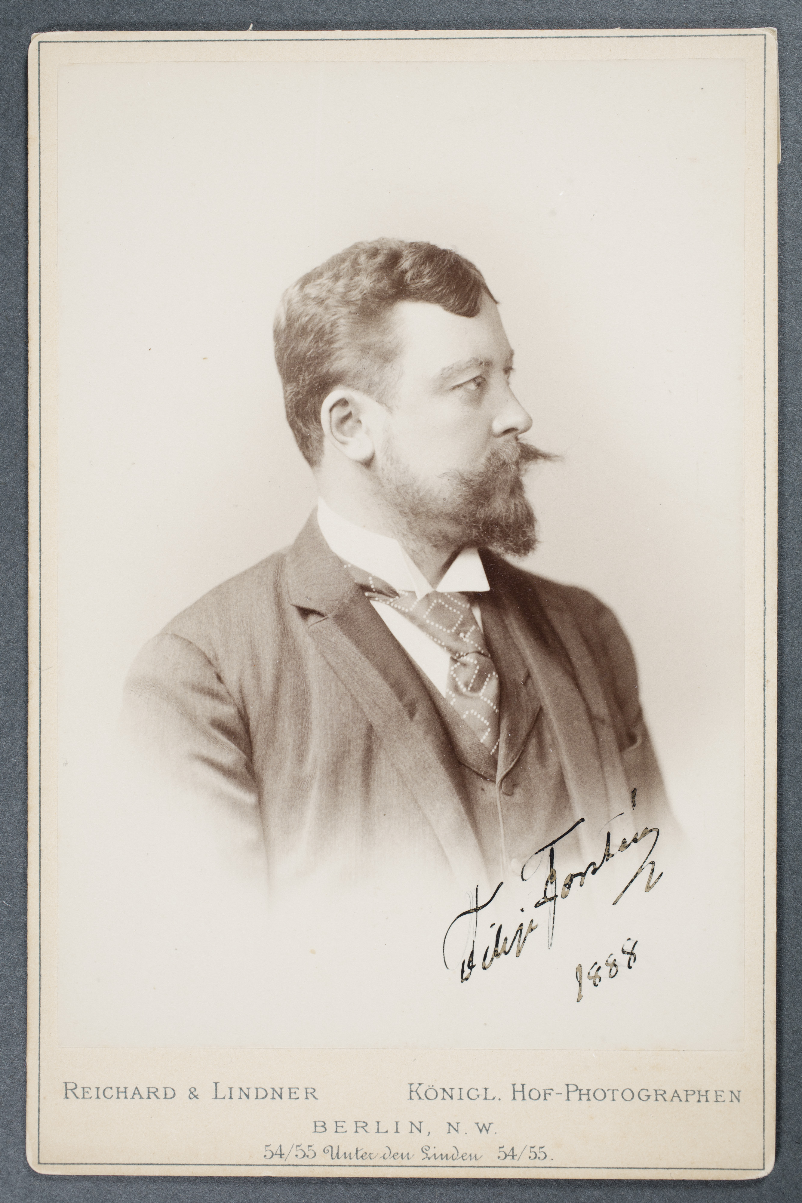 The Finnish opera singer Filip Forstén in 1888